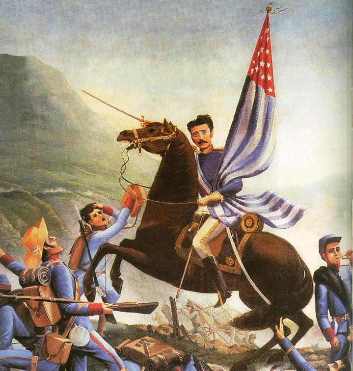 Regalado leading the final charge on El Sillon Hill